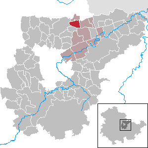 Oberreißen in Thuringia - District Weimarer Land